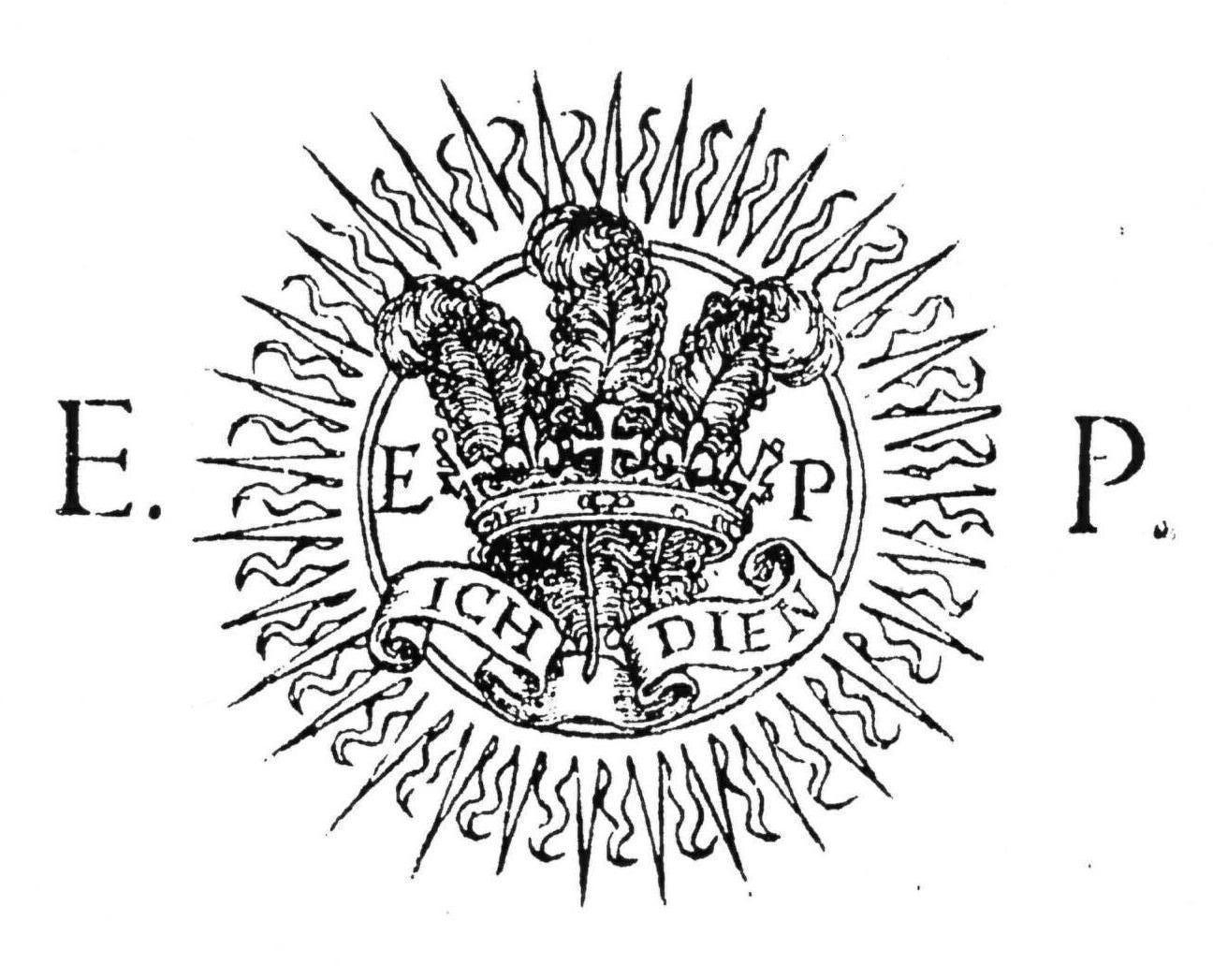 Badge of Prince Edward (later Edward VI) of England, published in John Leland, Genethliacon (1543)